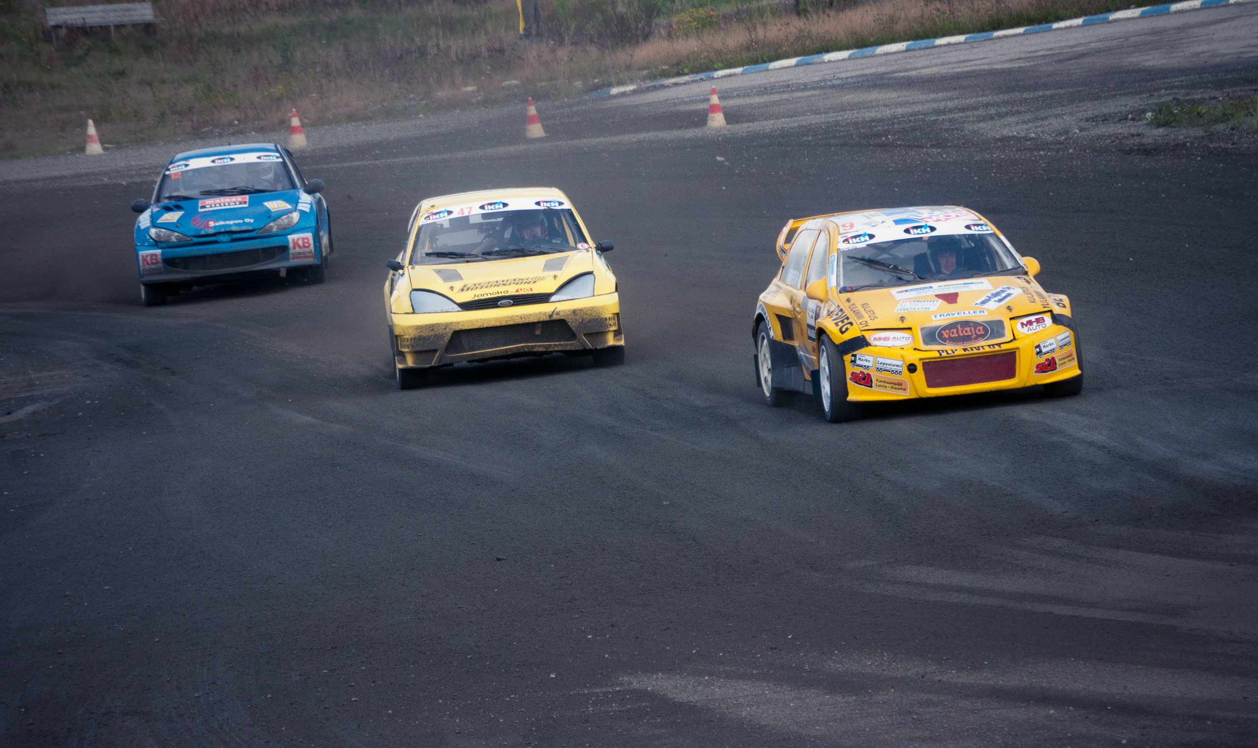 Super Car class in Finnish Rallycross Championship in Hyvinkää. Janne Kanerva, Jukka Lautamäki and Kari Irri.